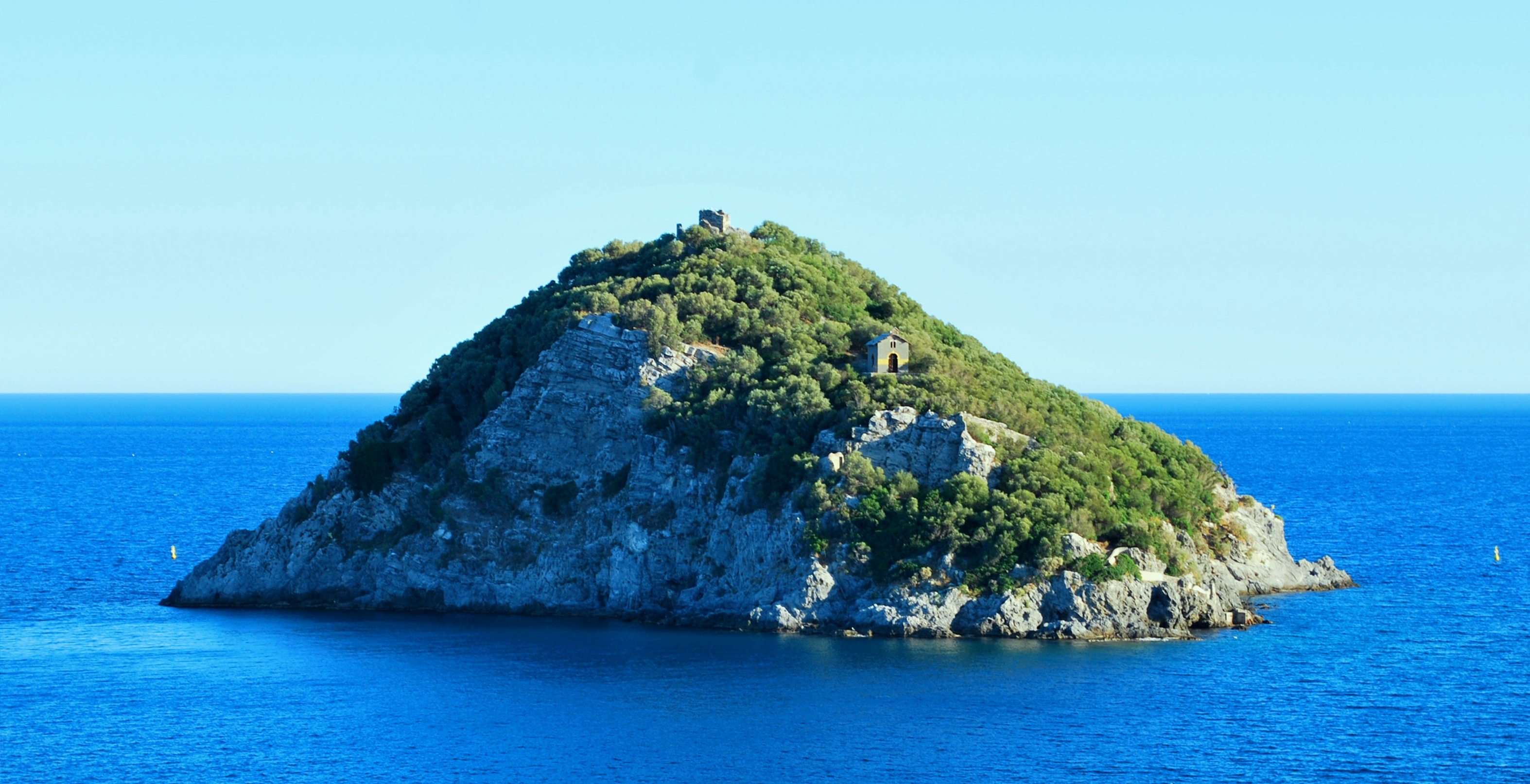 Bergeggi Island This is a photography of Natura 2000 protected area with ID IT1323202